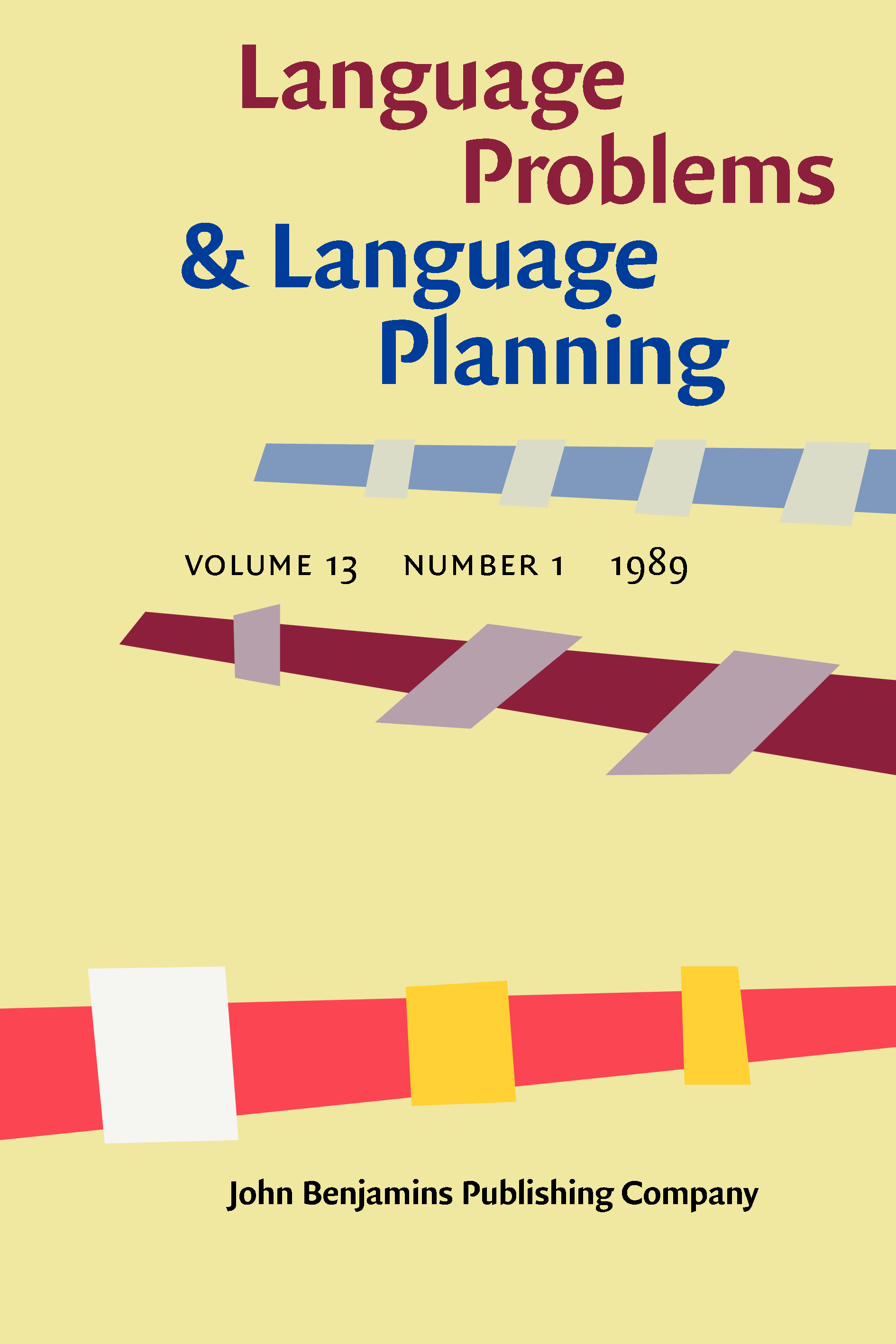 Cover of "Language Problems and Language Planning", volume 13, number 1, 1989.